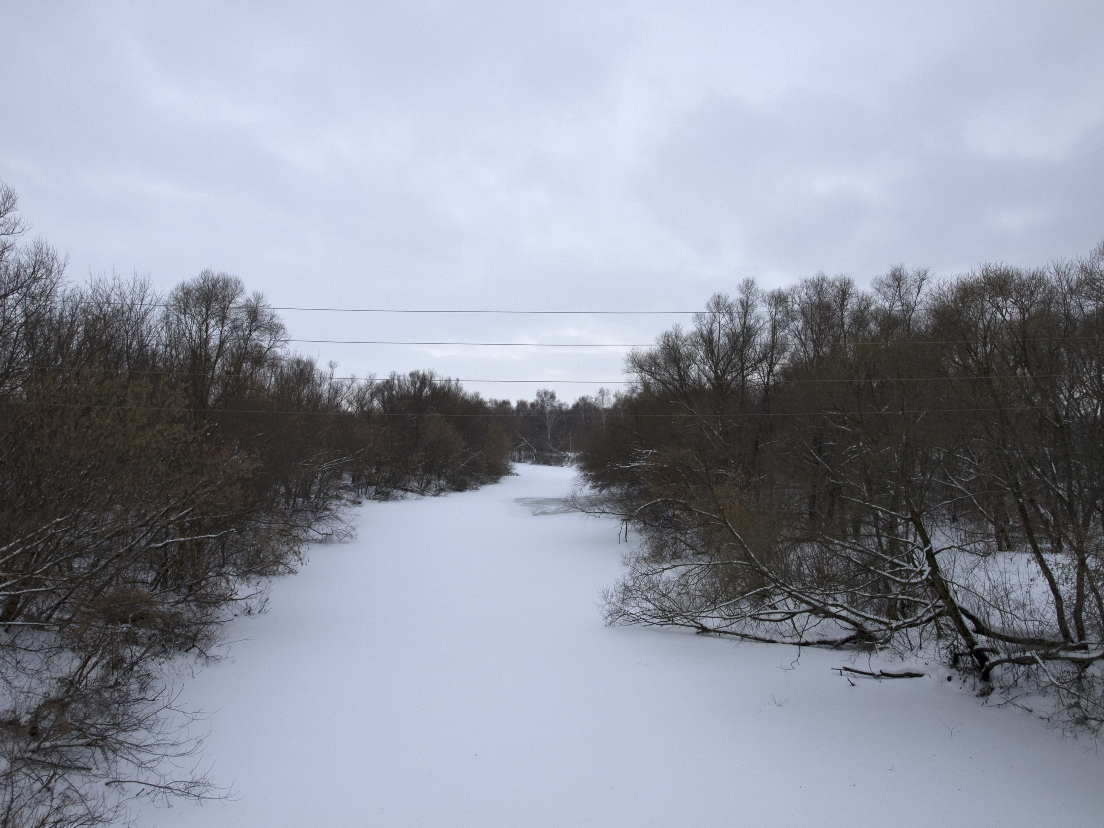 Insar River in Saransk from Volgogradskaja str.